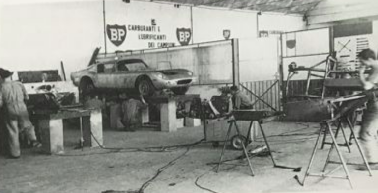 ASA 1000 GTC at a workshop, body not complete? It's chassis was made in Livorno by Bizzarini, and the body in Modena by Drogo (source: [1]). The source of this picture however, says the picture shows Neri & Bonacini in Modena (Nembo workshop). Not impossible, since Drogo collaborated with Nembo around this time (1962/63), e.g. with the Breadvan 2819GT.